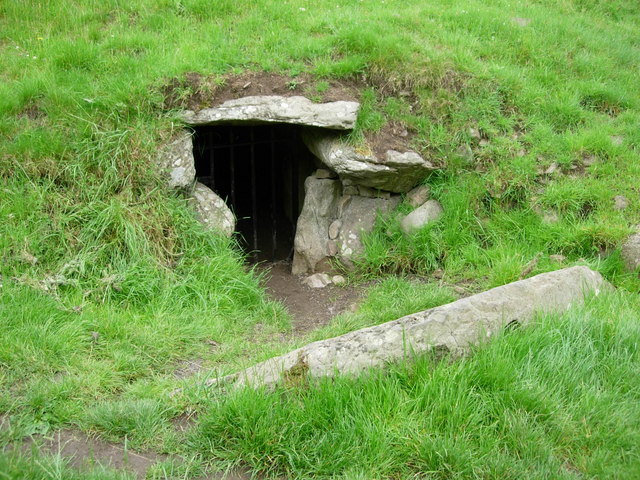 Entrance to South Passage Dowth Megalithic Tomb